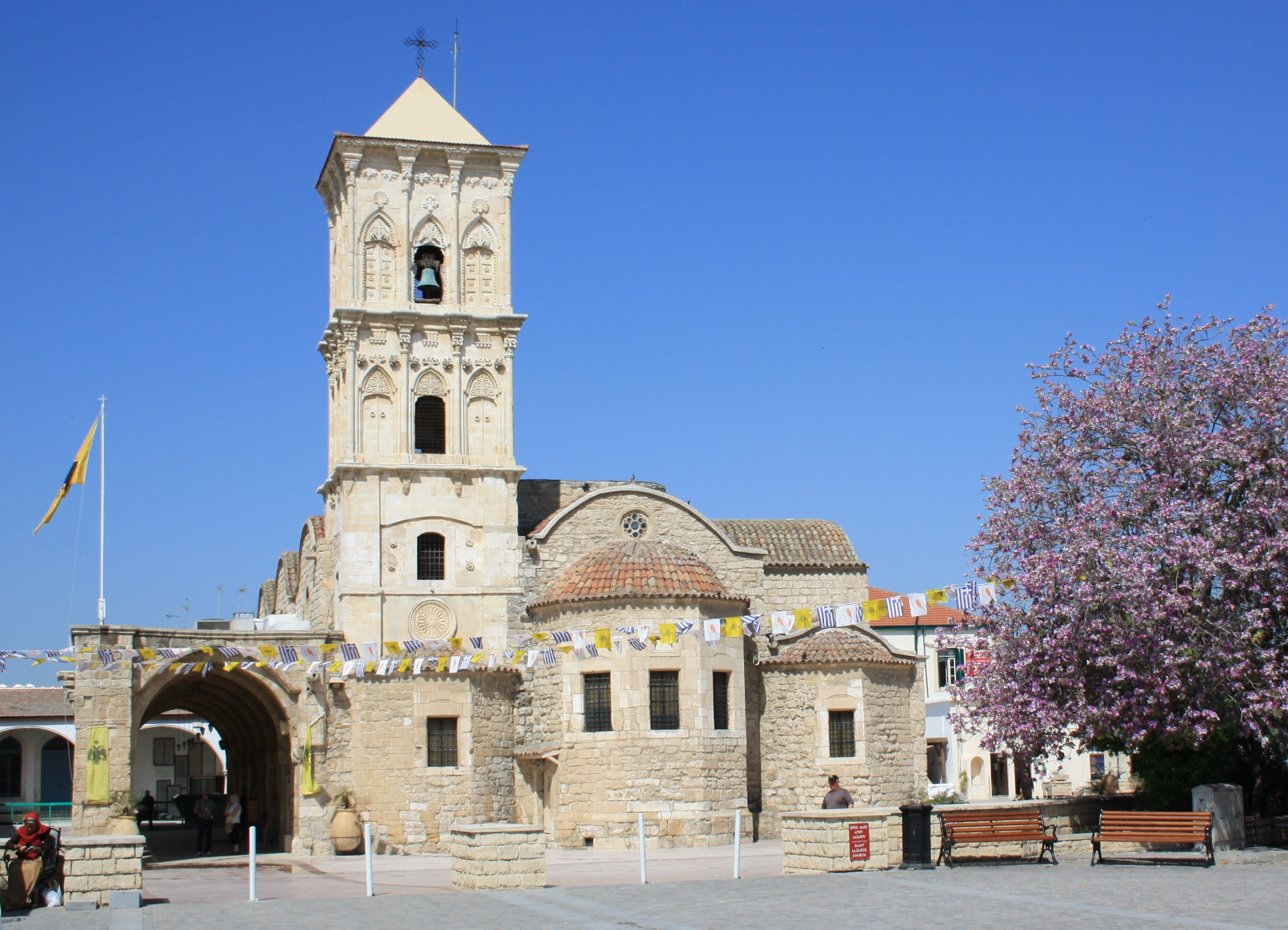 Outside view of St. Lazarus Church in Larnaka, Cyprus